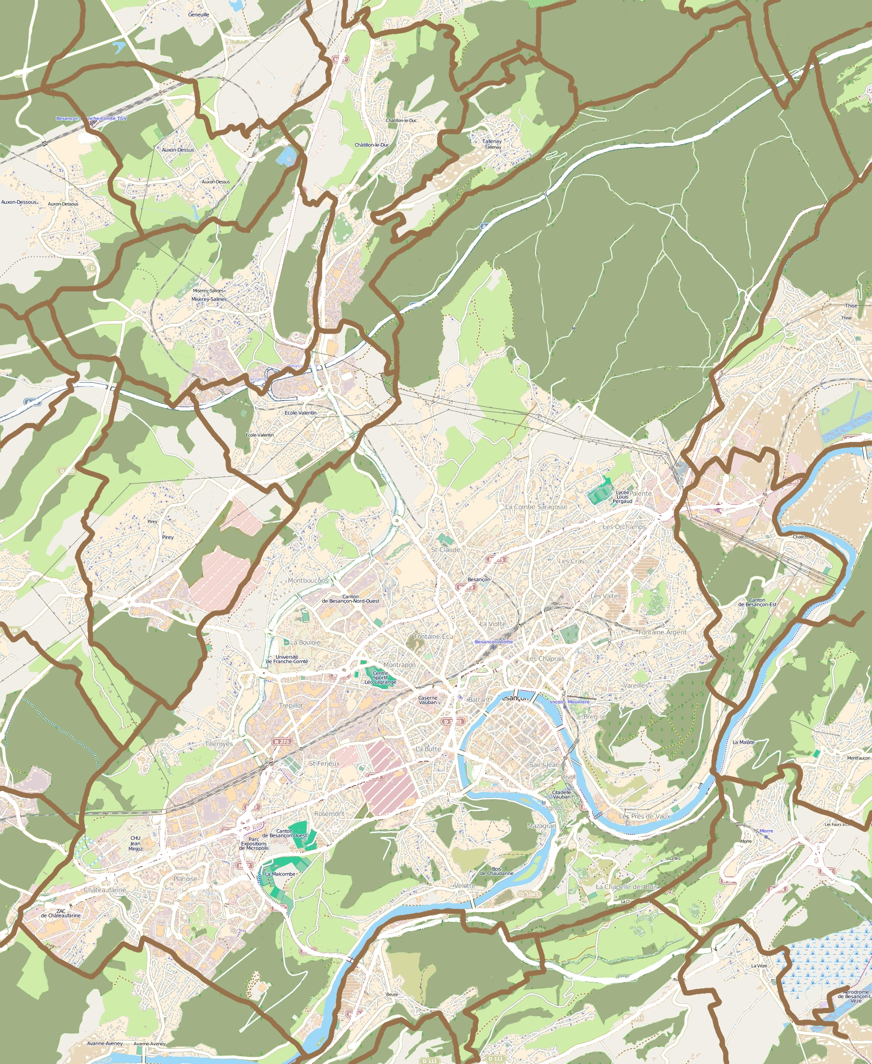 Map of Besançon, France